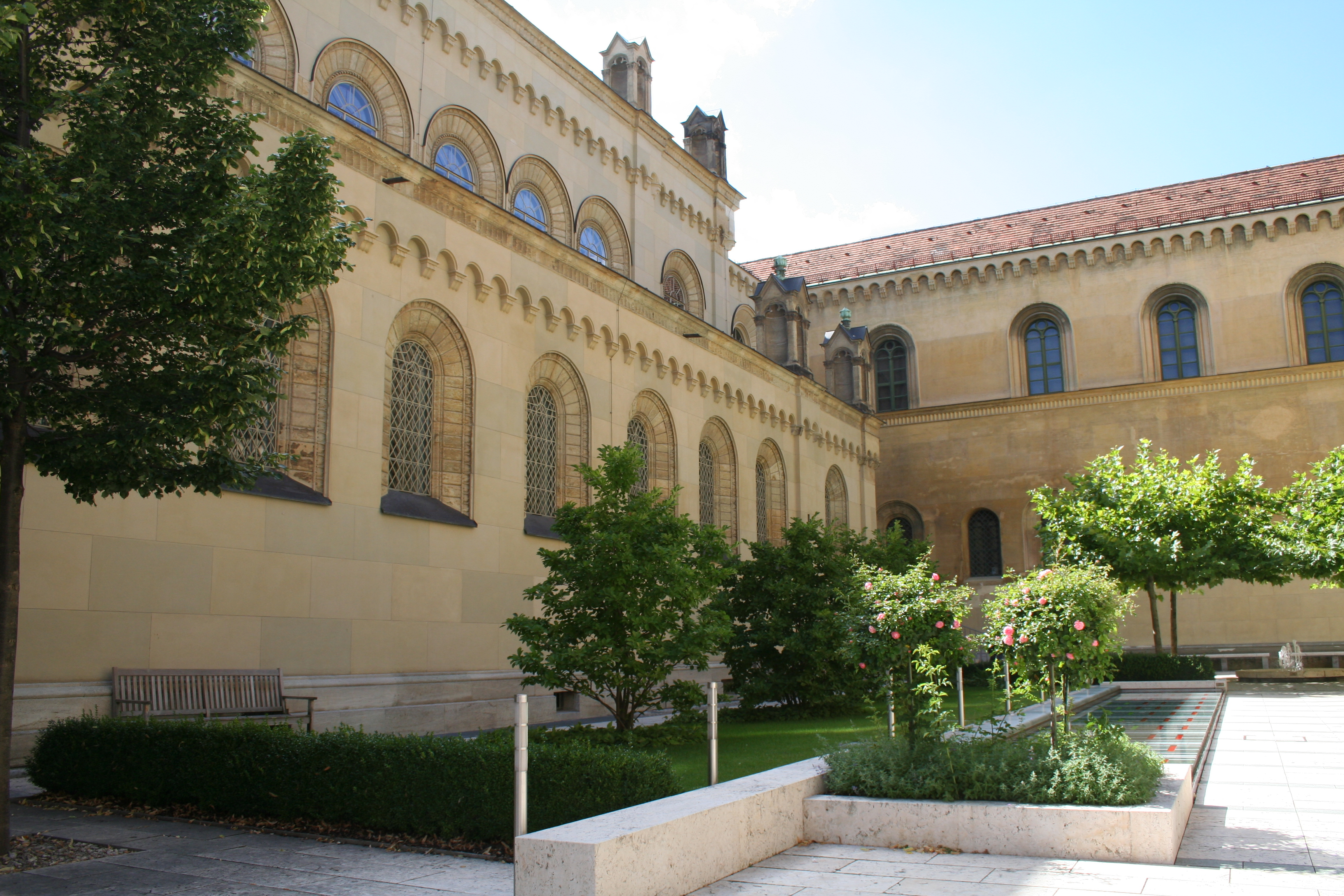 The Kabinettsgarten in the Munich Residence, flanked on the south side by the Allerheiligen-Hofkirche